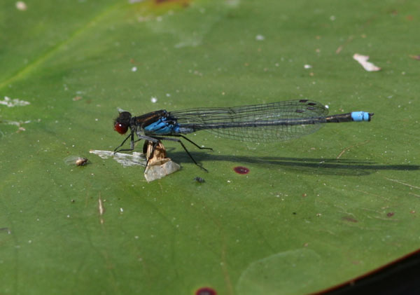 Red-eyed Damselfly, Erythromma najas. RSPB The Lodge nature reserve, Bedfordshire, United Kingdom